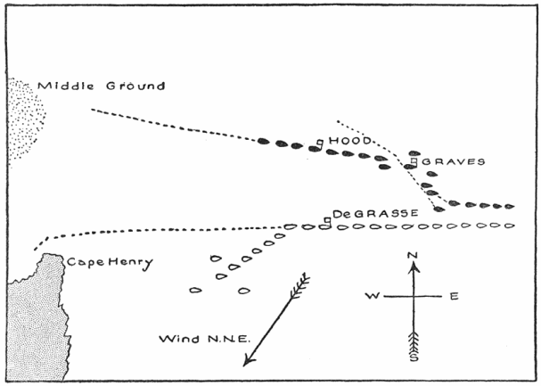 Diagram of the Battle of the Chesapeake, Sep. 5, 1781